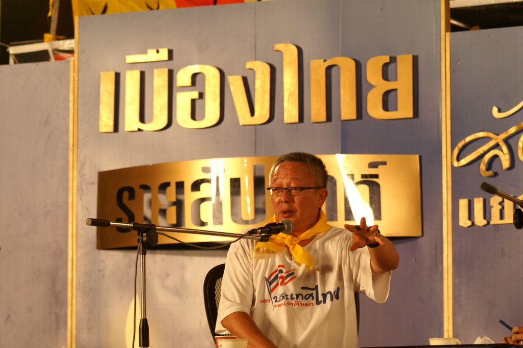 Sondhi Limthongkul during recording of Muangthai Rai Sapda (Thailand Weekly) show in 2006